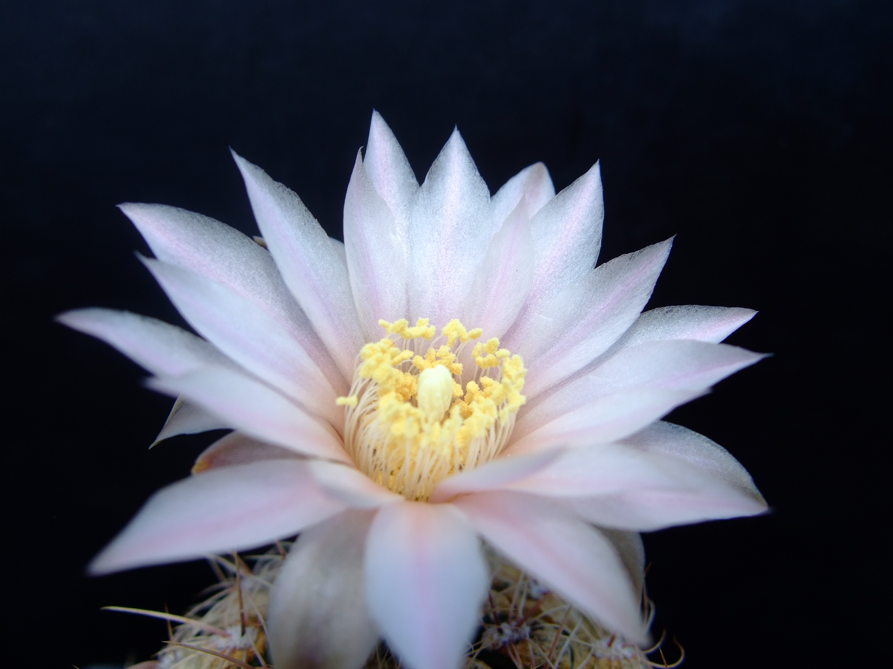 Flower of Gymnocalycium bruchii